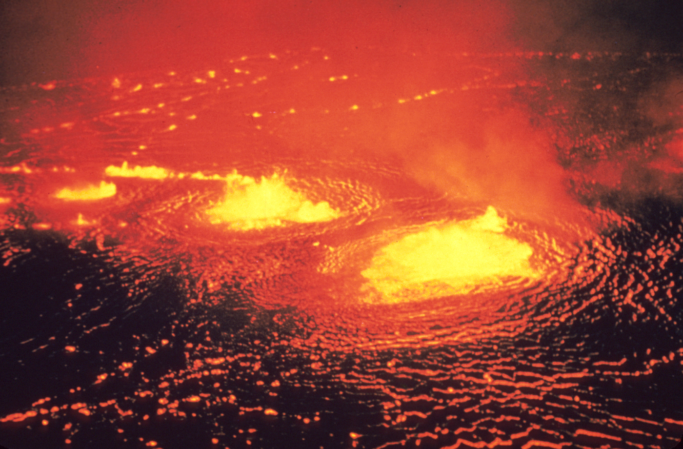 Hawaii Volcanoes National Park. May 1954 eruption of Kilauea Volcano. Halemaumau fountains. Photo by J.P. Eaton, May 31, 1954.